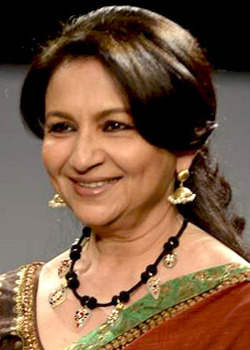 Sharmila Tagore walks the ramp for Joy Mitra at WIFW